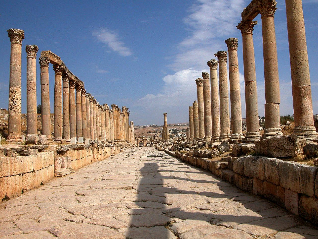 A colonnaded street which lead to the town wall. Jerash, Jordan Jerash, 48 kilometers from of Amman is considered one of the largest and most well-preserved Roman sites in the world outside Italy. Archaeologists have found the ruins of settlements dating back to the Neolithic Age, indicating human occupation at this location for more than 6500 years. It was not until the days of Alexander the Great that Jerash truly began to prosper. After falling under the rule of the Seleucid King Antioch in the second century BC, Jerash was conquered by the Roman Emperor Pompey in 63 BC. It was during the period of Roman rule that Jerash, then known as Gerasa, enjoyed its golden age. The Crusaders described Jerash as uninhabited, and it remained abandoned until its rediscovery in 1806, when Ulrich Jasper Seetzen, a German traveler, came across and recognized a small part of the ruins. The ancient city was buried in sand, which accounts for its remarkable preservation.